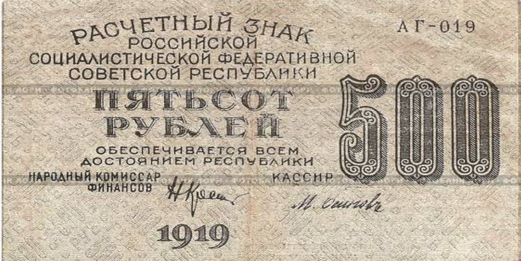 Unit of Account of 500 roubles of the FRFSR issued in 1919